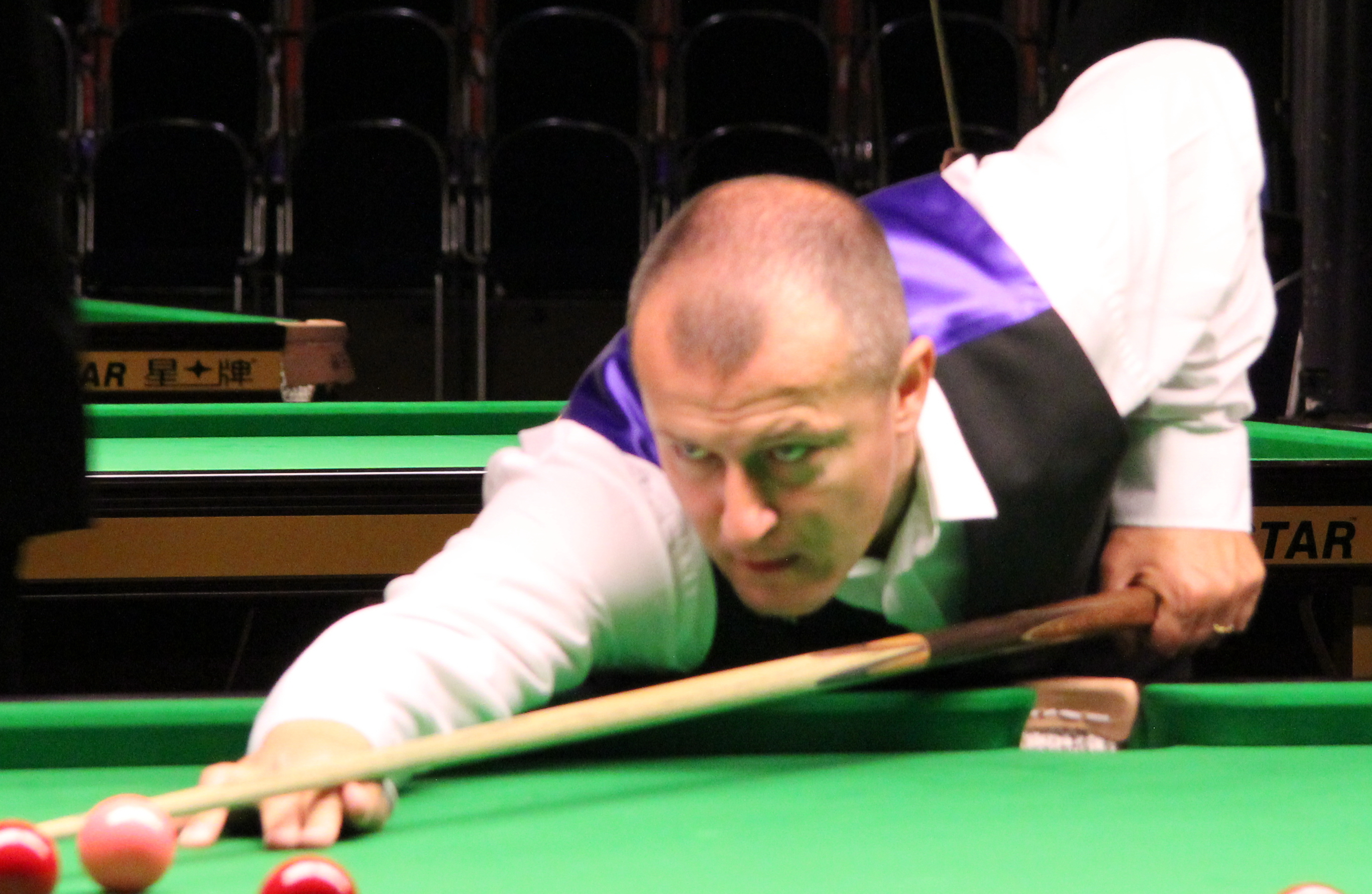 Ian McCulloch beim Paul Hunter Classic 2011